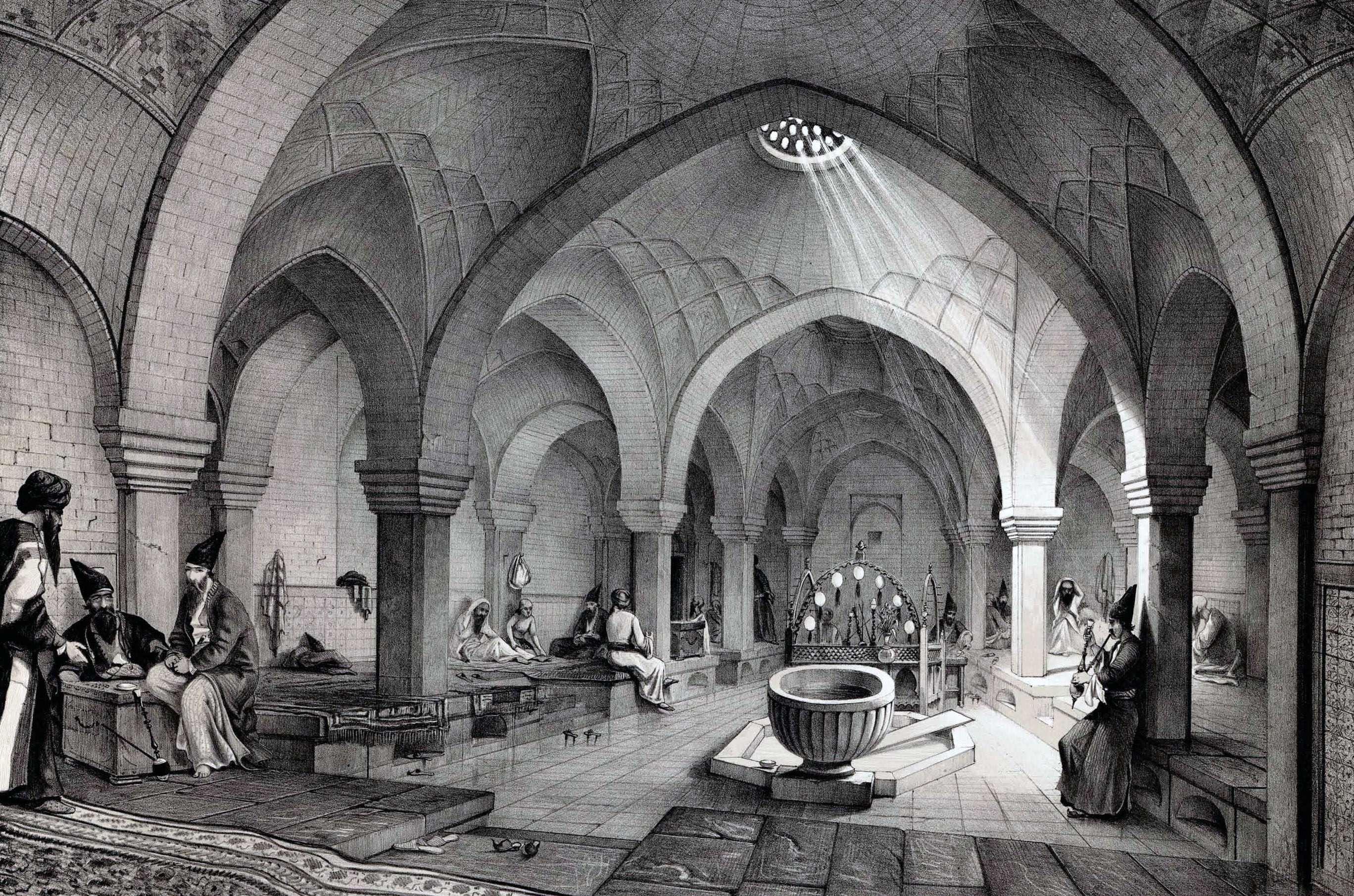 Bath Khosrou Aga, Isfahan